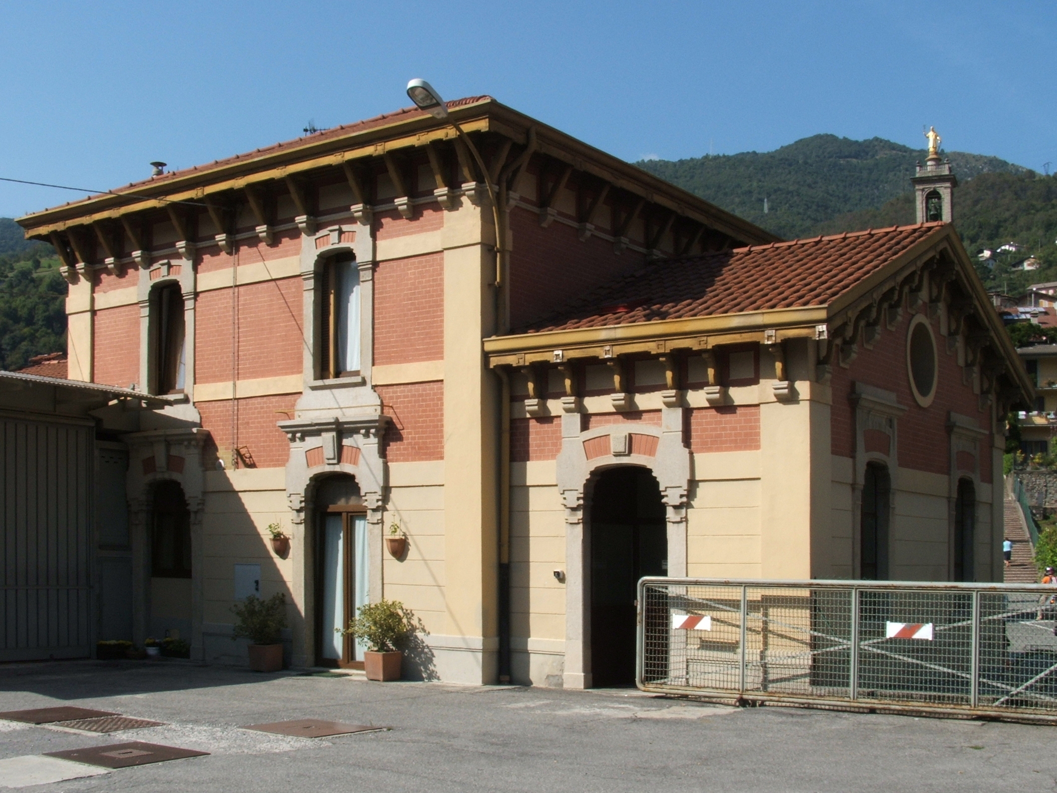 Old train station of Zogno, Bergamo, Italy